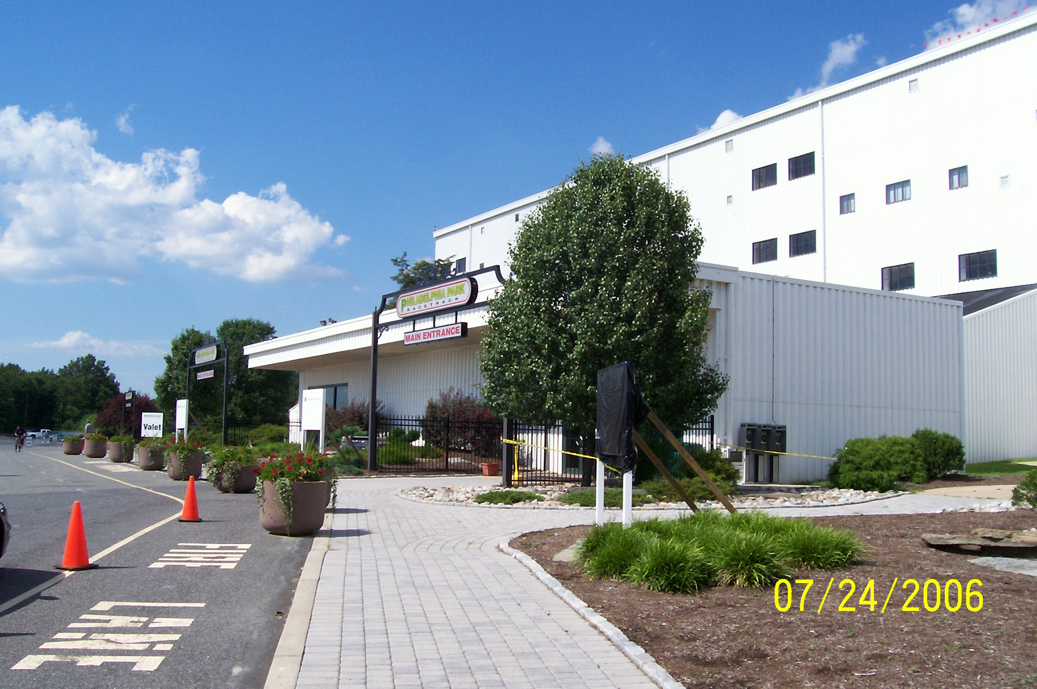 Parx East building, back in 2006 when it was known as Philadelphia Park Racetrack